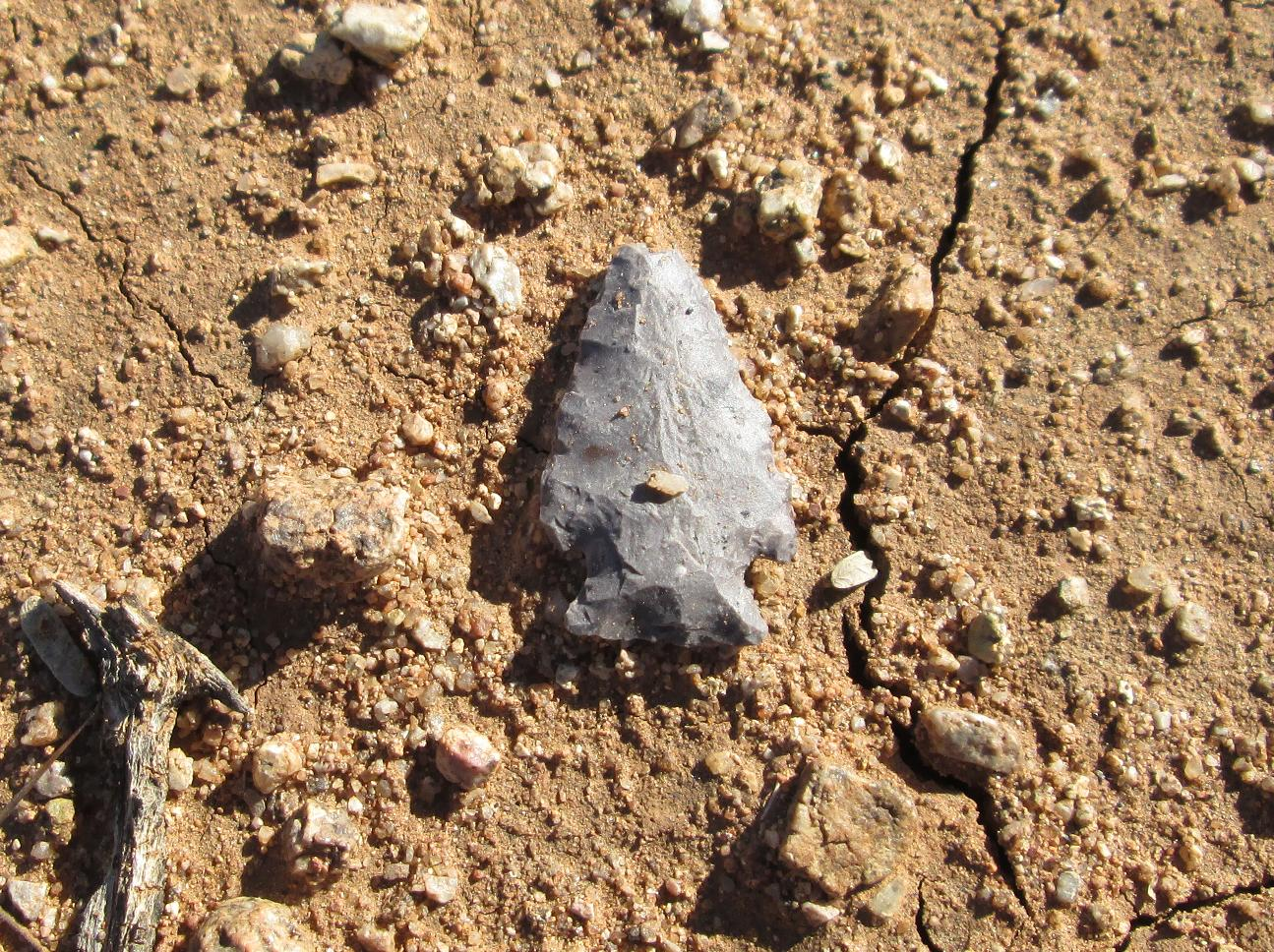 Hohokam arrowhead in situ in Sahuarita, Arizona. January 12, 2014